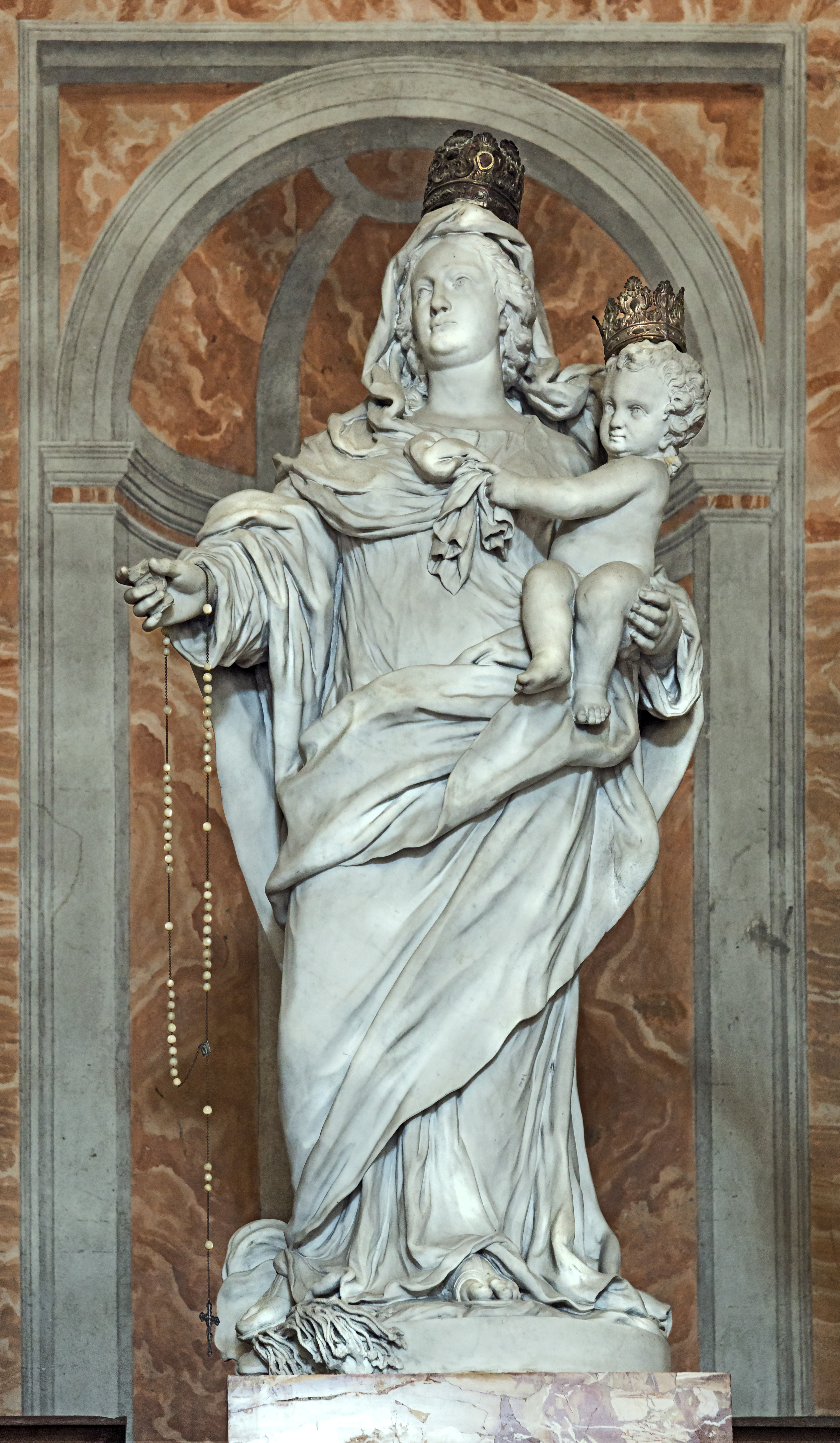 San Geremia, Venice. "Our Lady of the Rosary", marble sculptures of Giovanni Maria Morlaiter.